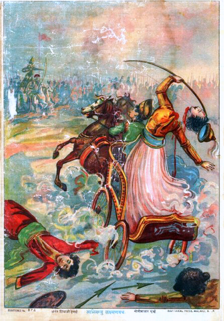 From Baroda Art Gallery